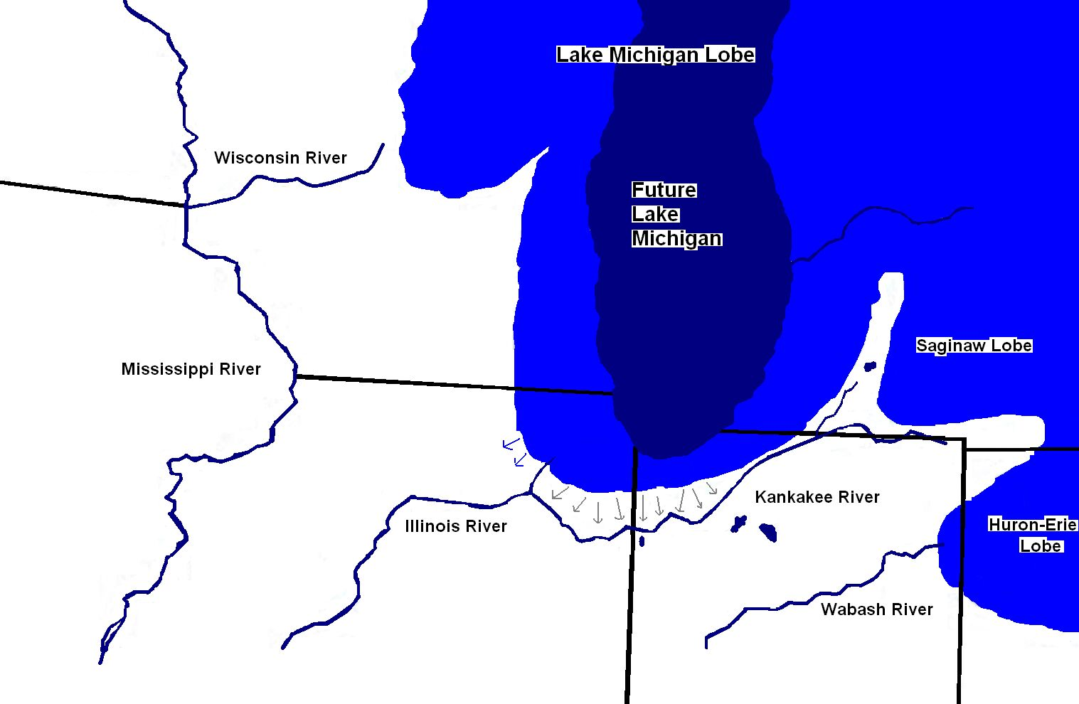 Michigan ice lobe at the Valparaiso Moraine location during the Pleistocene Ice Age. (Leverett, 1899, U.S. Geological Survery)